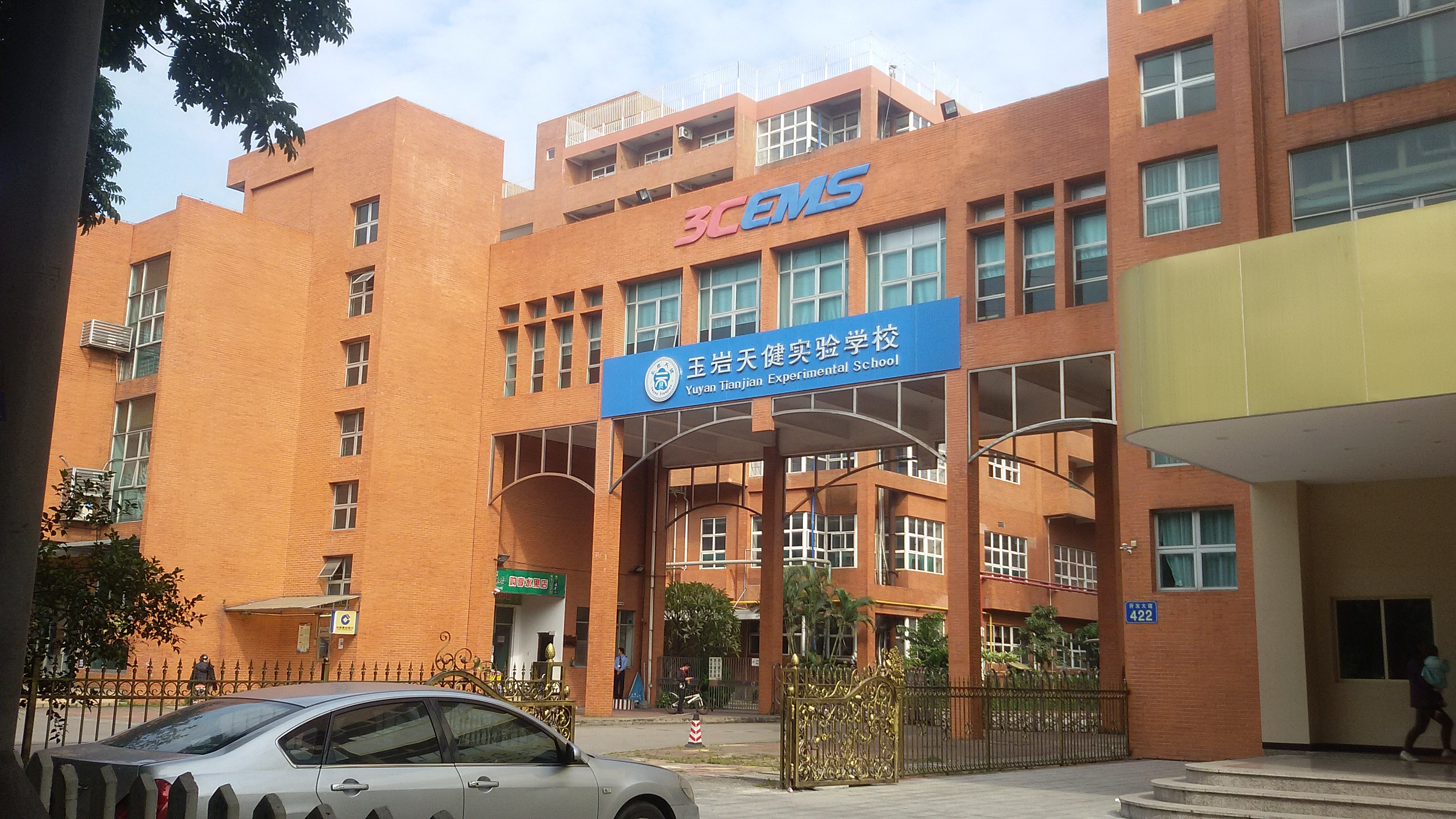 Yuyan Tianjian Experimental School